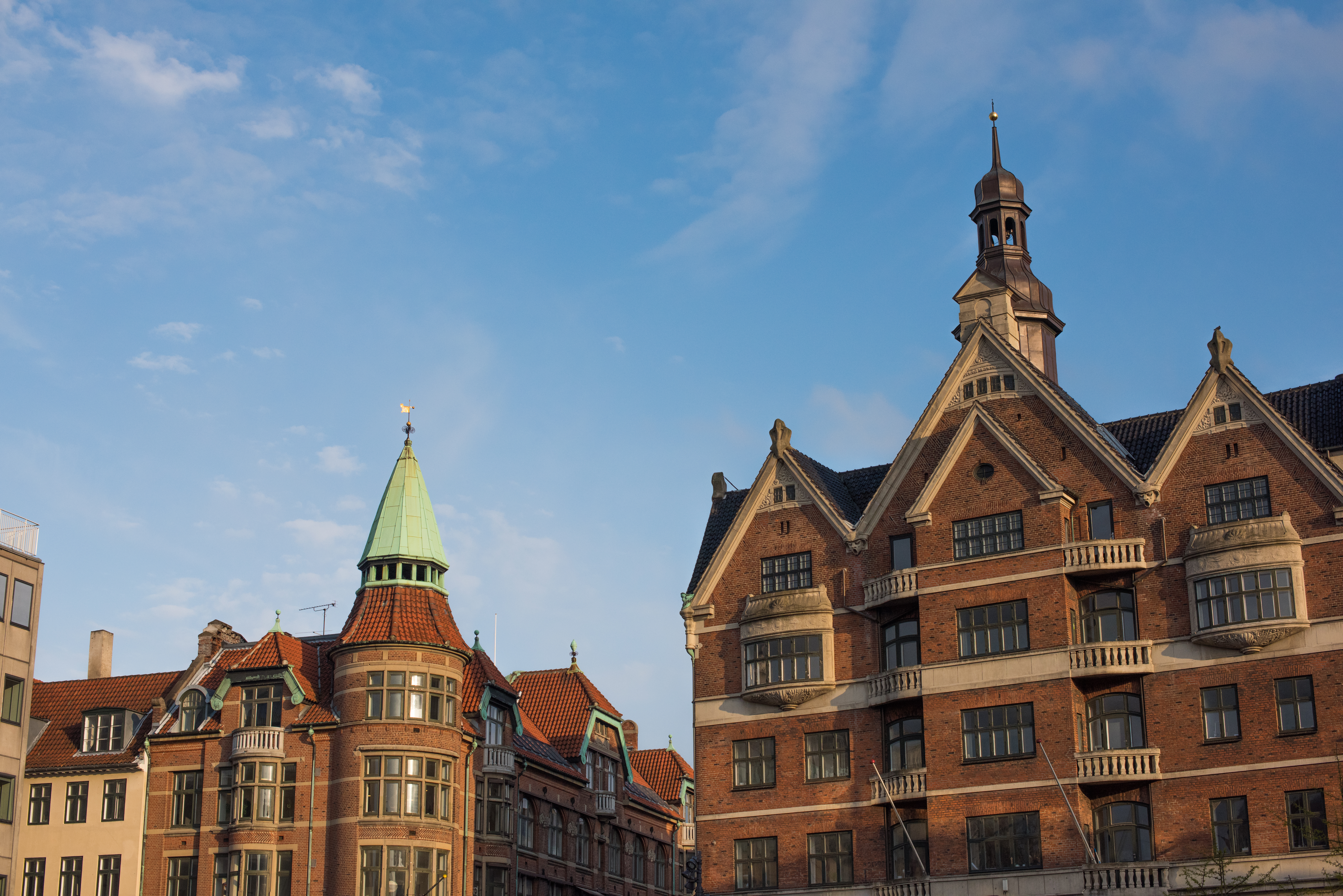 The Buildings that flank the beginning of Købmagergade as seen from Kultorvet in Copenhagen, Denmark